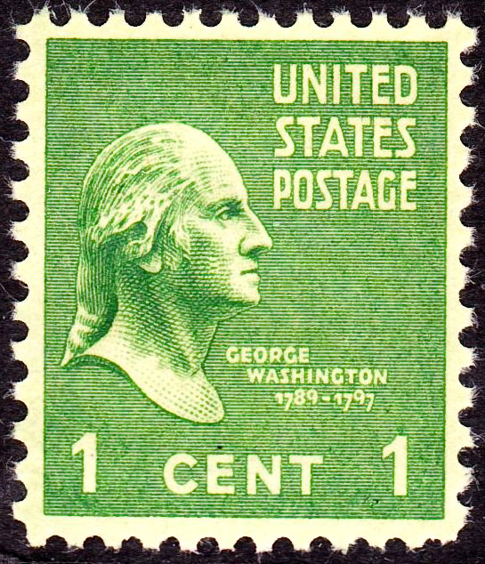 US Postage stamp: George Washington, Issue of 1938, 1c. green. 1938 Presidential Issue